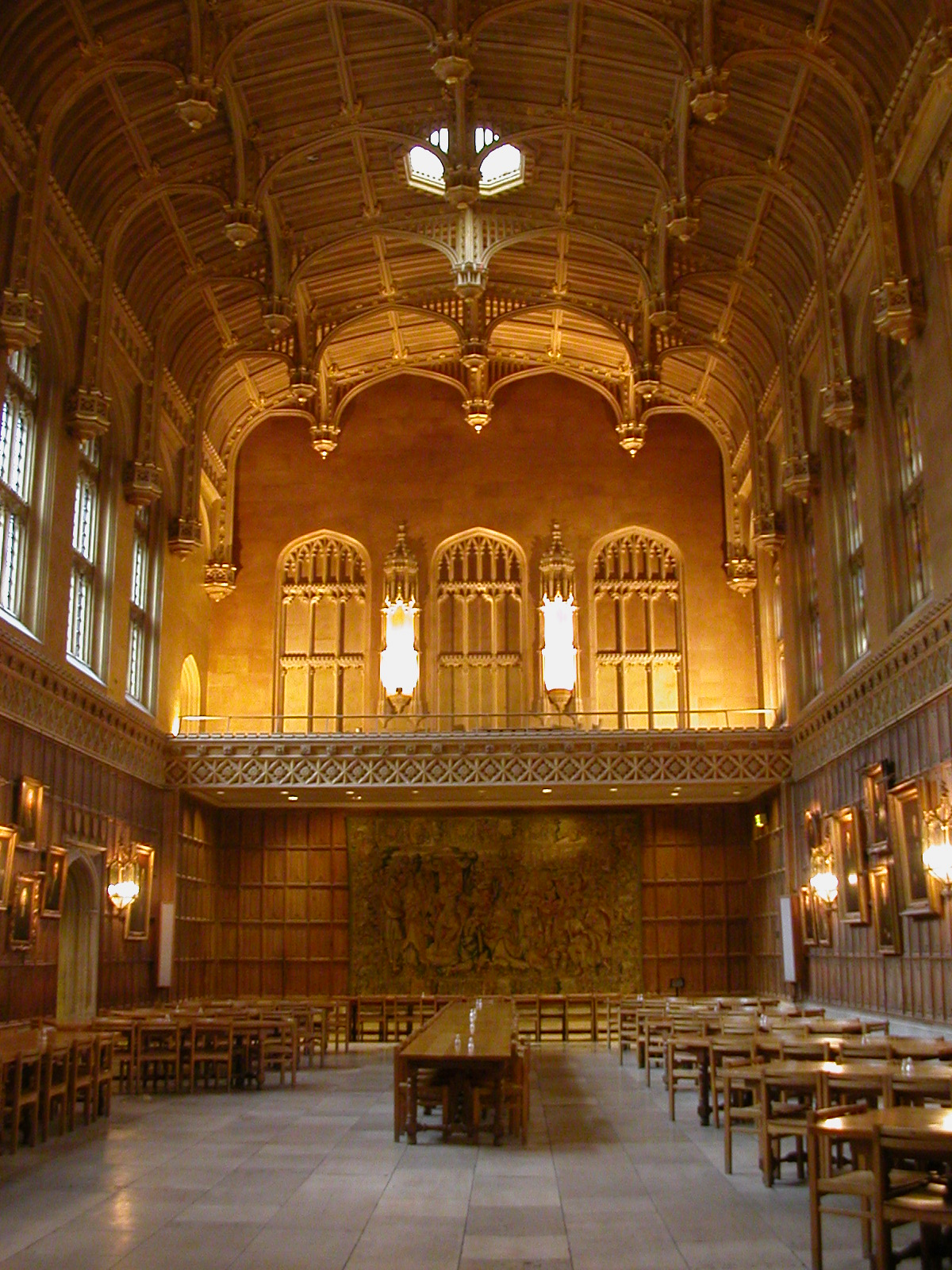 Taken by me, released to public domain (original description) Dining hall of King's College, Cambridge, UK (additional description by JackyR)